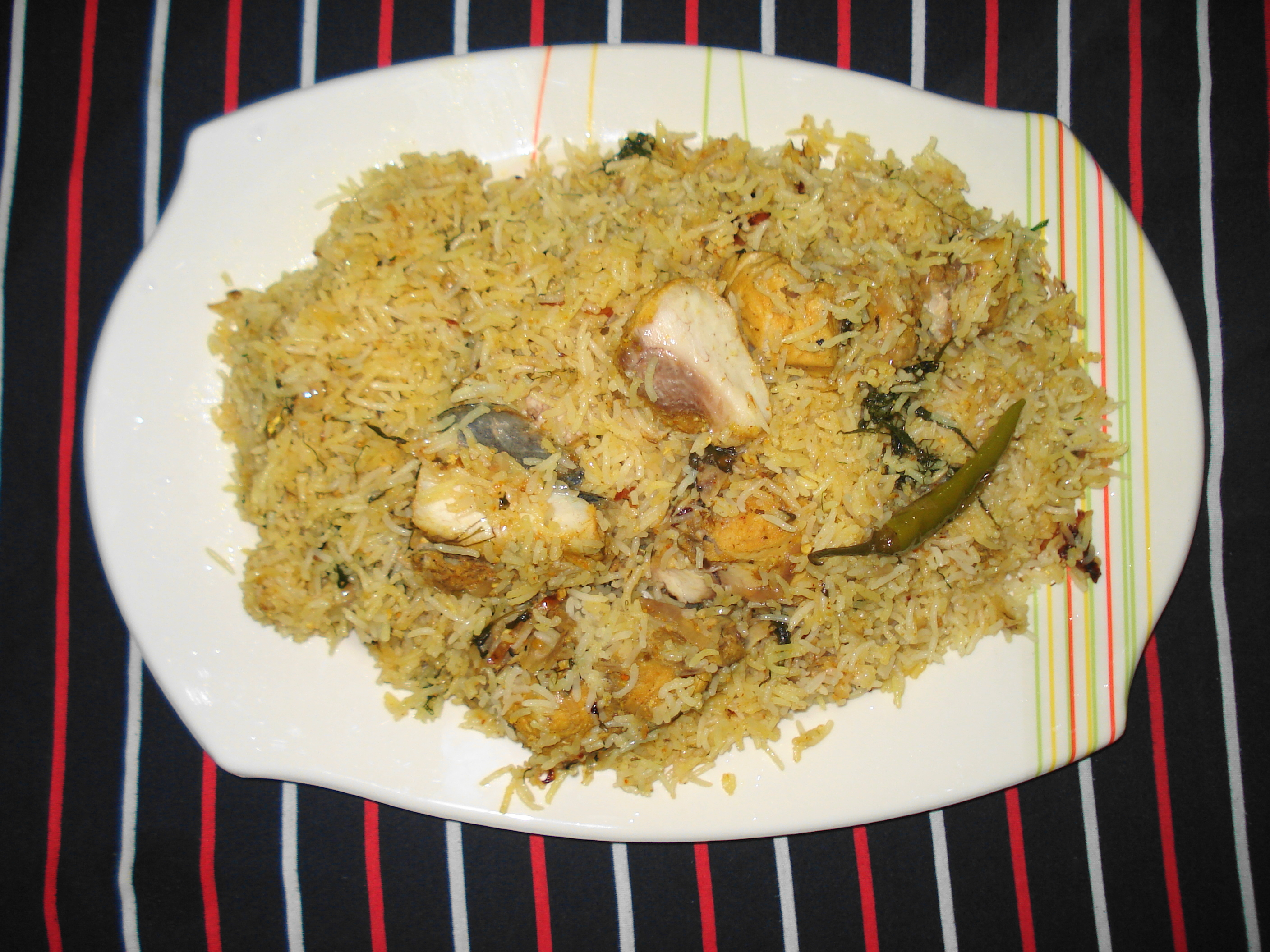 Mashli ki Biryani